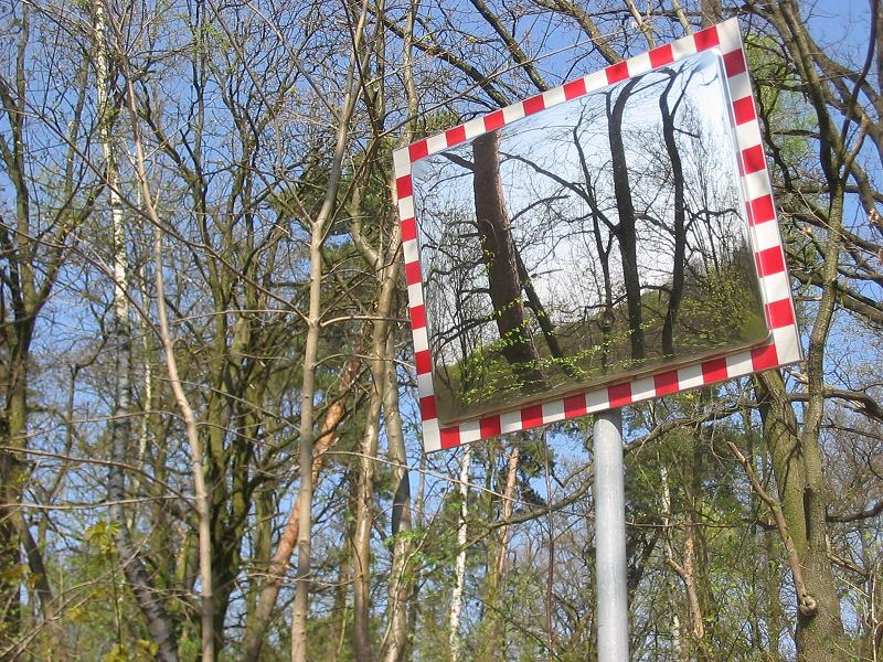 The Murellenberge, the Murellenschlucht and the Schanzenwald (german for: Murellenhill, Murellenravine, Sconceforest) are a hill-landscape from the last gacial period in Berlin-Ruhleben in the district Charlottenburg-Wilmersdorf. It is part of the Teltow-Plateau at its northside in Berlin. In the hills there is the memorial Denkzeichen zur Erinnerung an die Ermordeten der NS-Militärjustiz am Murellenberg (german for: Thought-Signs to commemorate the victims of Nazi military justice at Murellenberg), created by the argentine, in Berlin living, artist Patricia Pisani in 2002.